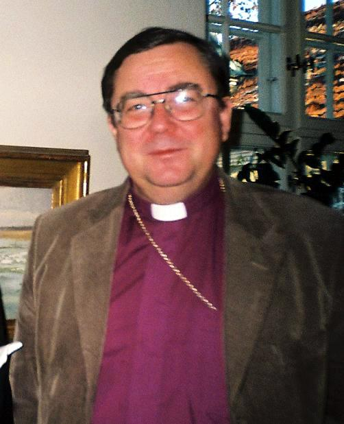 Bishop Thomas Söderberg of West Aros (Västerås), as released by image creator FamSACPlace: Stiftshuset, Västra kyrkogatan 9, West Aros, Sweden